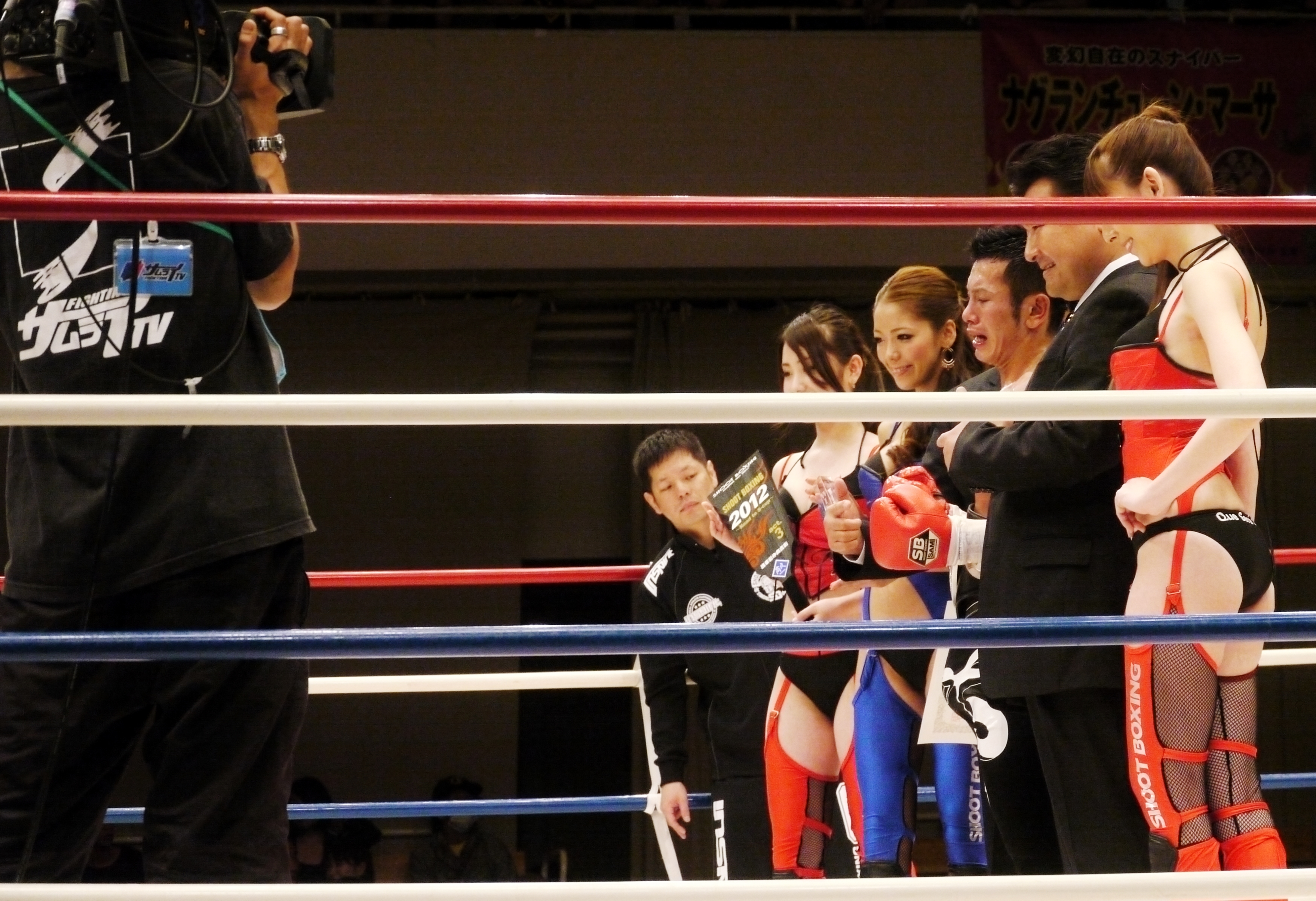 Masahiro Fujimoto and ring girls in the Fighting TV Samurai-televised shoot boxing event.